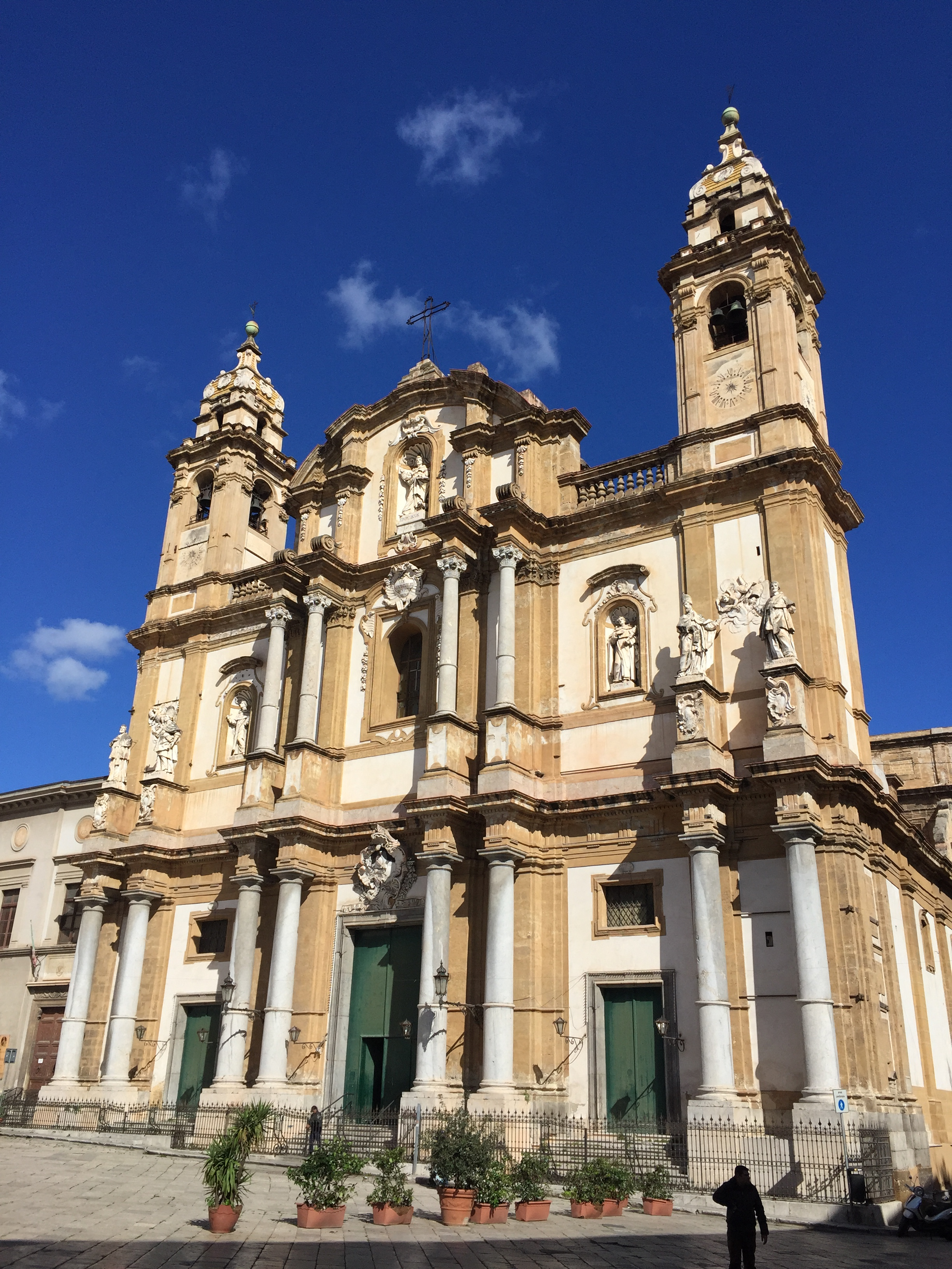 Chiesa di San Domenico (Palermo)